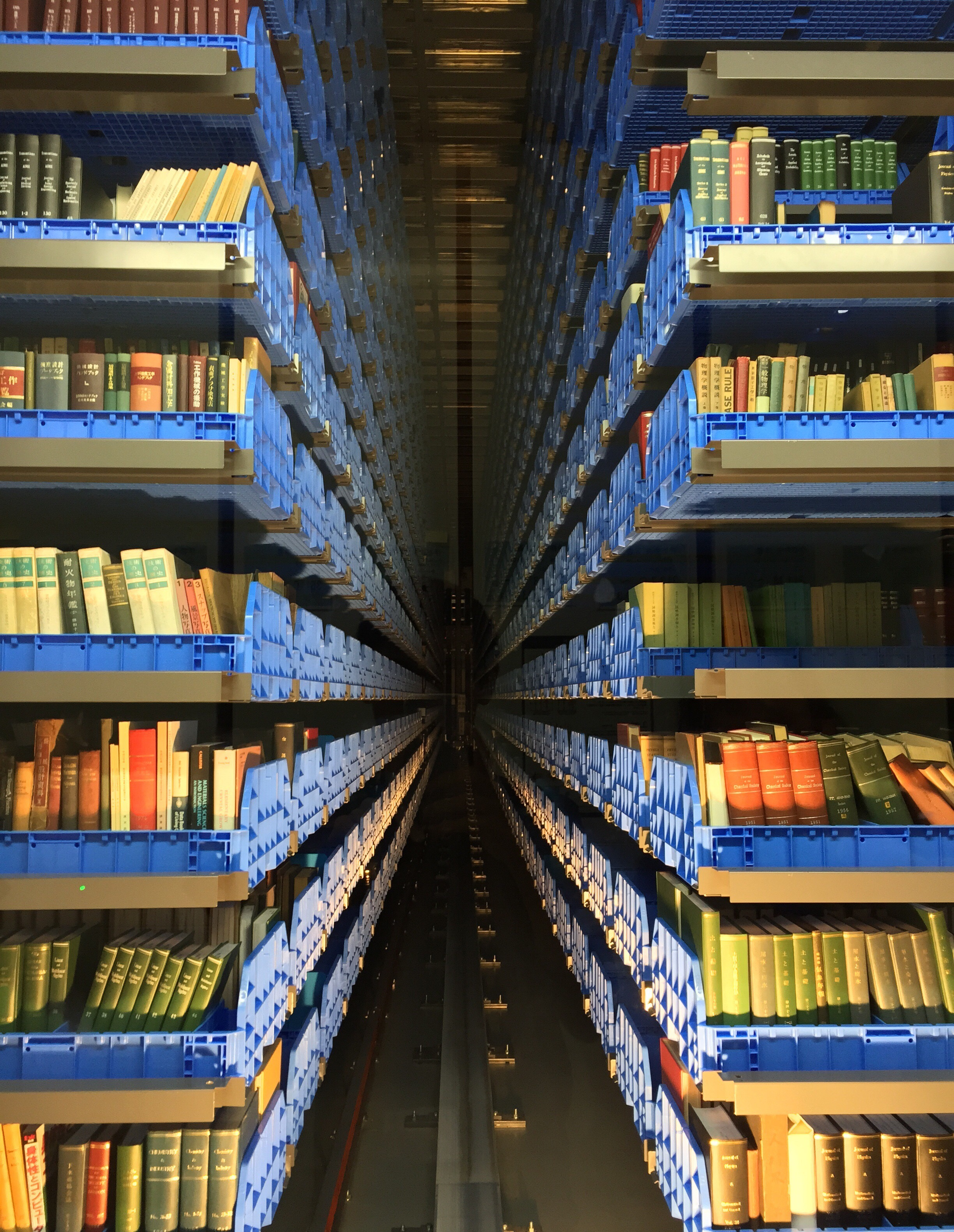 Automated storage and retrieval system installed at the Ito Library